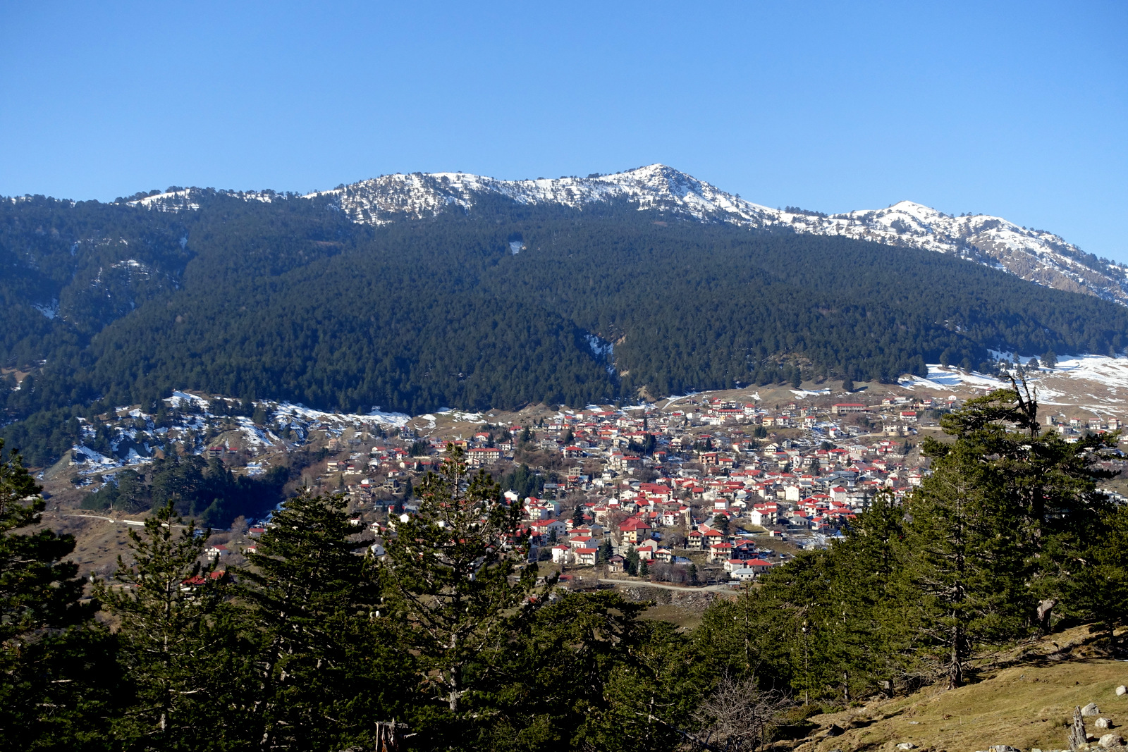 View of Samarina and mount Smolikas